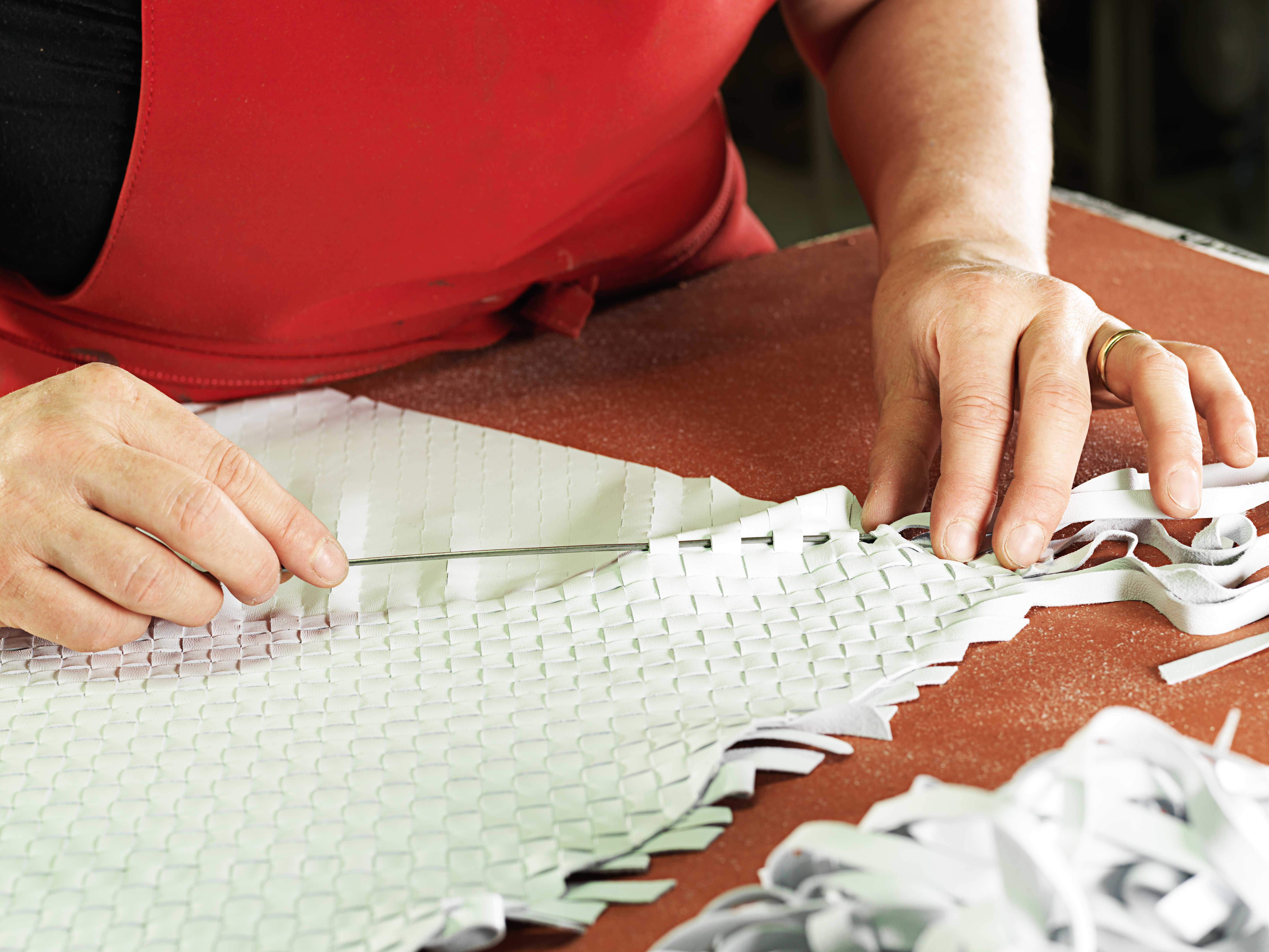 Own photo Author: Kirill Lata